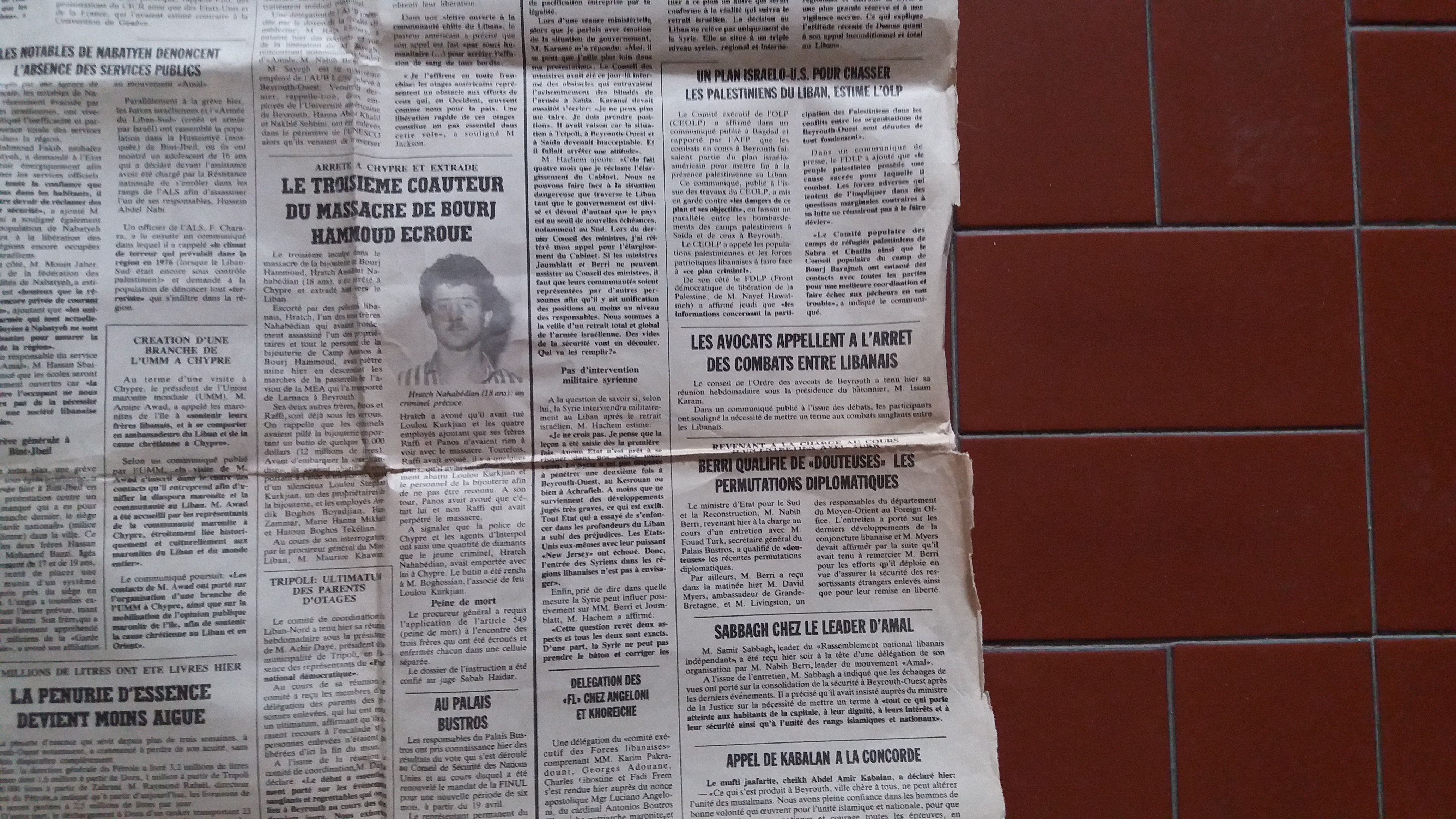 The news about the arrest of "The Bourj Hammoud Massacre" participant Hratch Nahabedians, as it appeared in the Lebanese daily L’Orient LE JURE, 18 April, 1985.